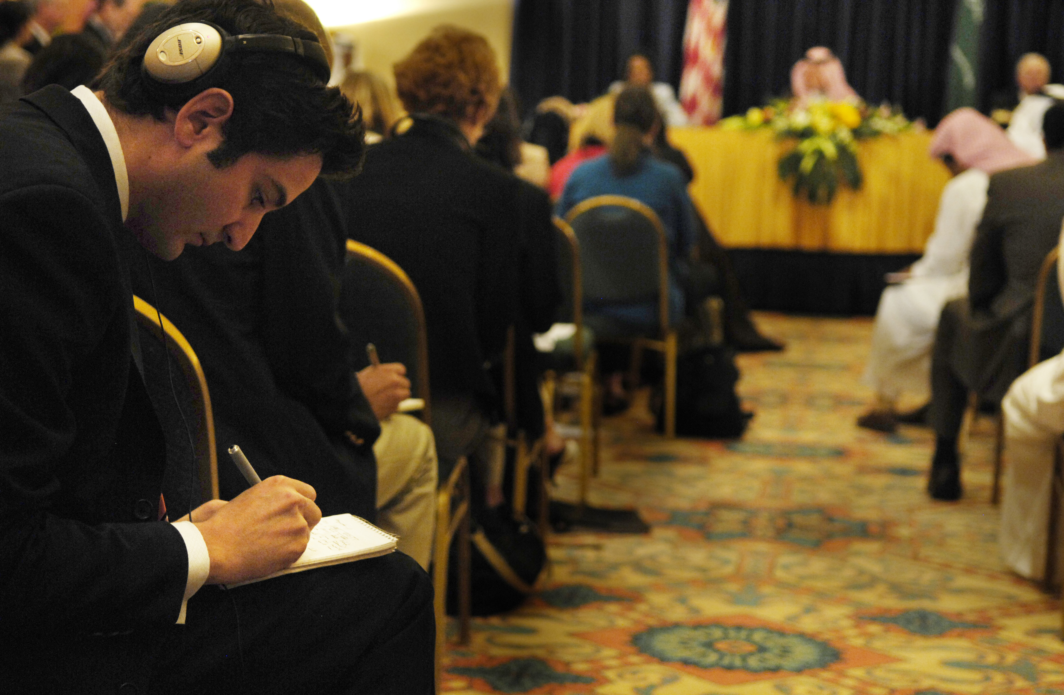 Guy Raz, National Public Radio, takes notes during a press conference with U.S. Defense Secretary Robert M. Gates, Secretary of State Condoleezza Rice and Saudi Foreign Minister Saud Al-Failsal in Jeddah, Saudi Arabia, Aug. 1, 2007.